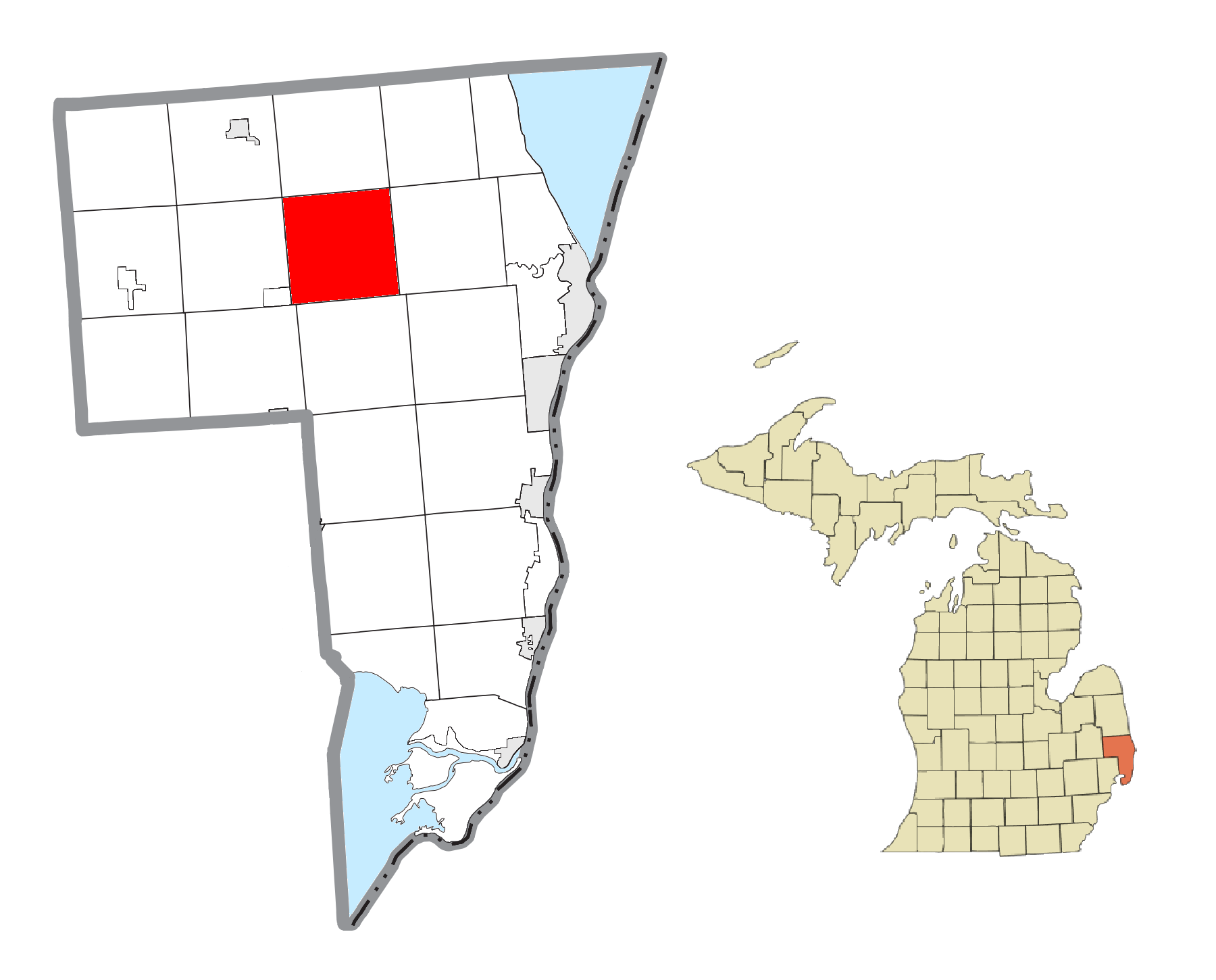 Kenockee Township, MI